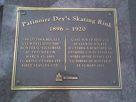 Photo of plaque at Dey's Rink site. This plaque is now missing and has been replaced by a new marker.